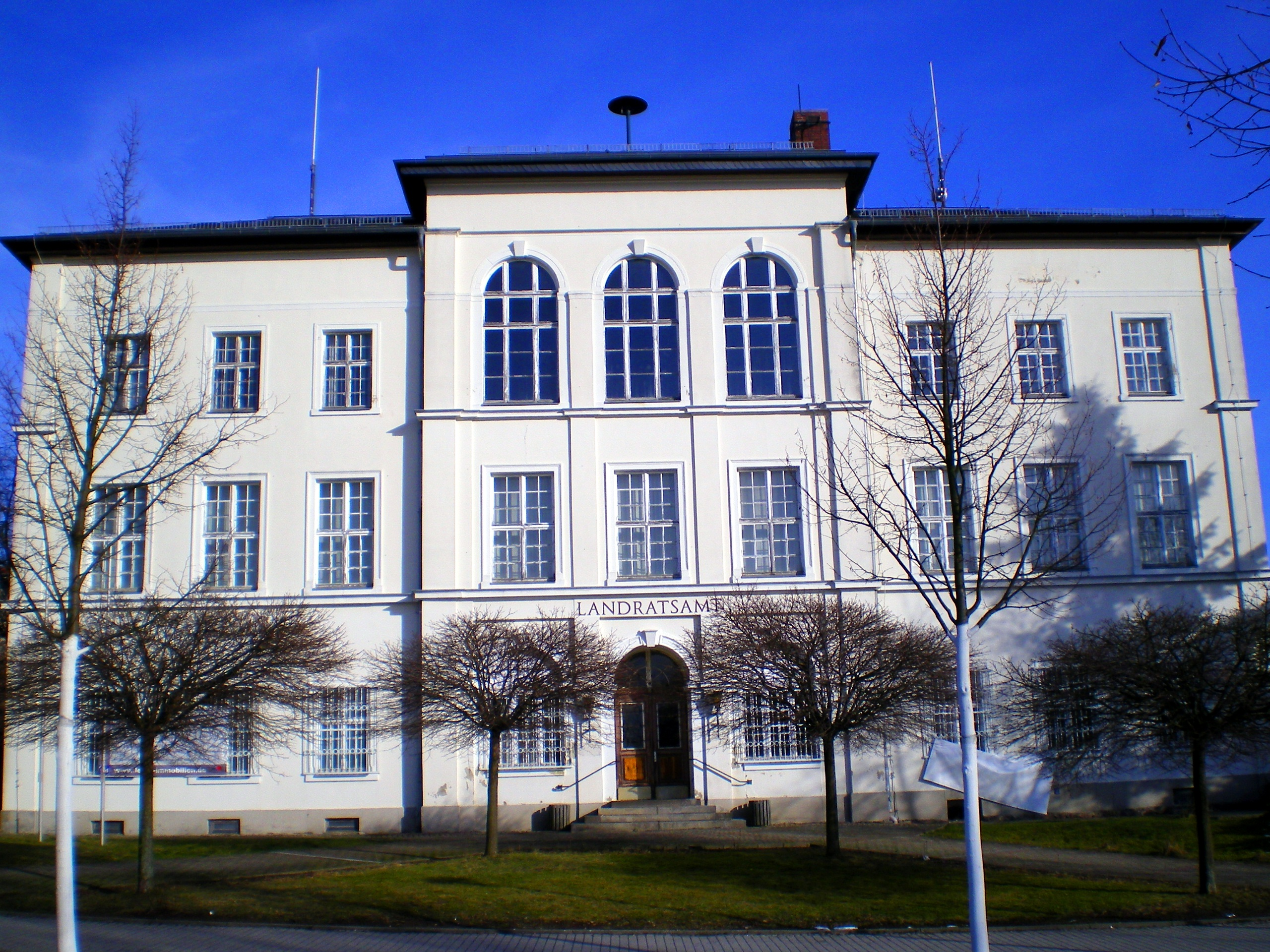 Ancient district office in Geithain near Leipzig